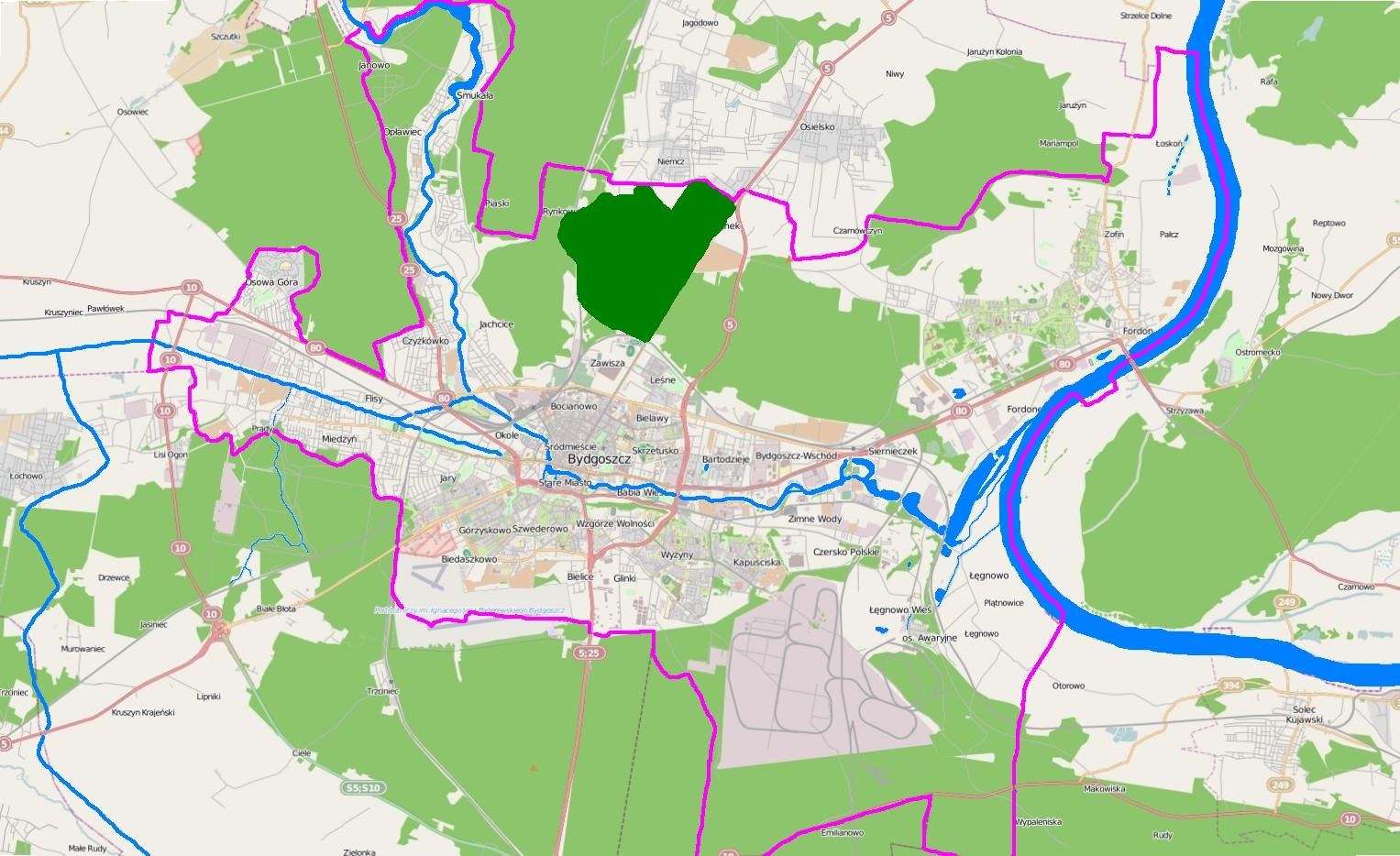 Location of Forest Park of Culture and Rest in Bydgoszcz (Poland)